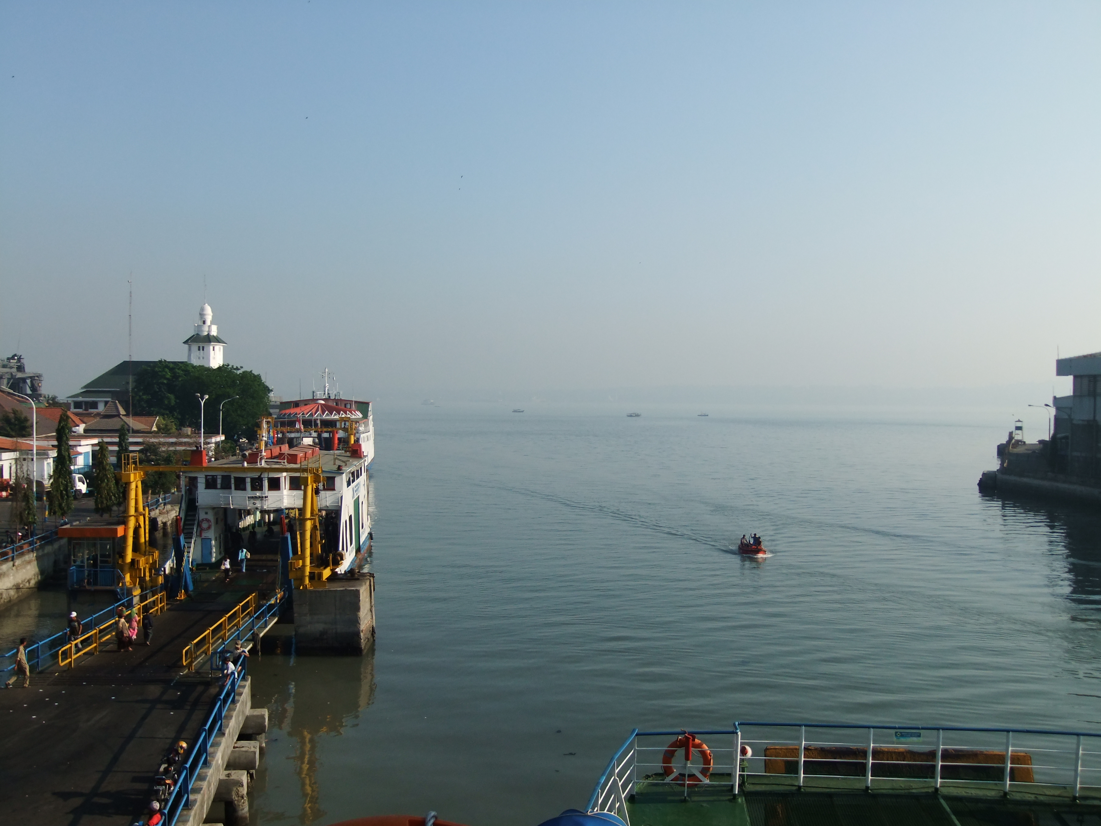 Ujung Port, Madura Strait